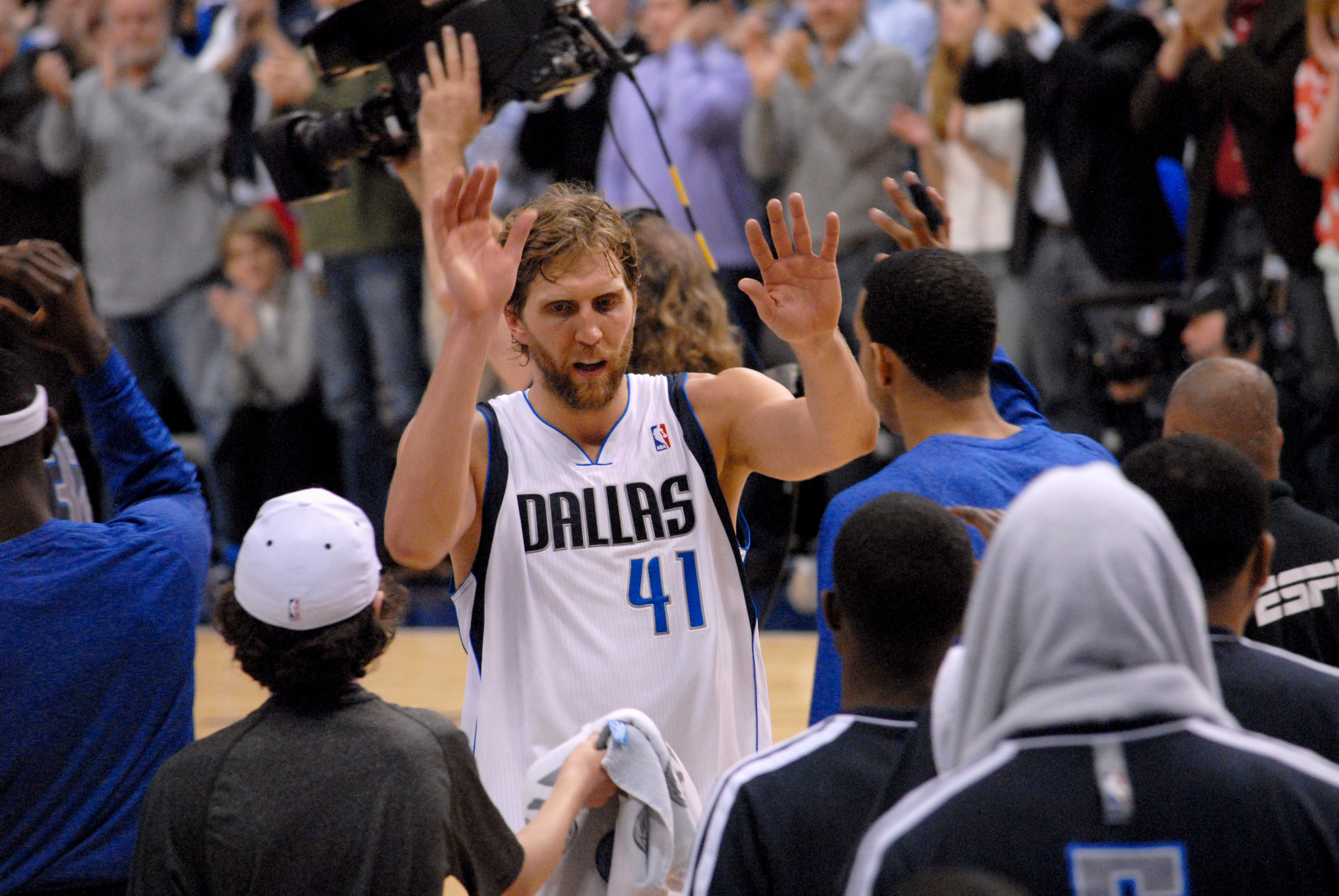 Dirk Nowitzki of the Dallas Mavericks